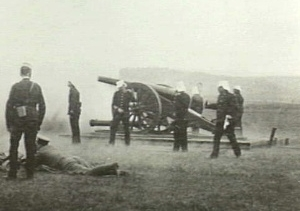 AWM caption : "TASMANIA, 1902. FIRING THE 40 POUNDER ARMSTRONG B. L. SIEGE GUN AT ROSS. FOREGROUND - STANDING, MAJOR G. E. HARRAP, CO; CAPTAIN F. HERITAGE (LATER BRIGADIER). LAUNCESTON VOLUNTEER ARTILLERY." This is a clipped section of the full image at File:RBL 40 pounder gun Tasmania 1902 AWM A04785.jpeg